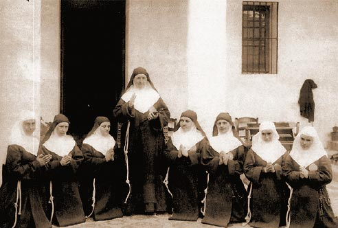 Blessed Carmen González Ramos at Tiana, Spain, ca. 1886, when she founded a school of her congregation